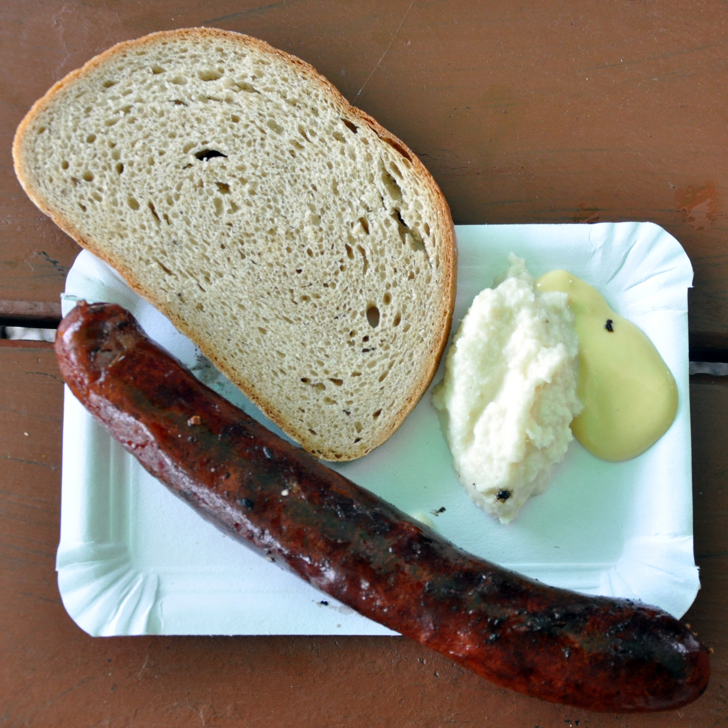 Grilled homemade sausage with horseradish and yellow mustard